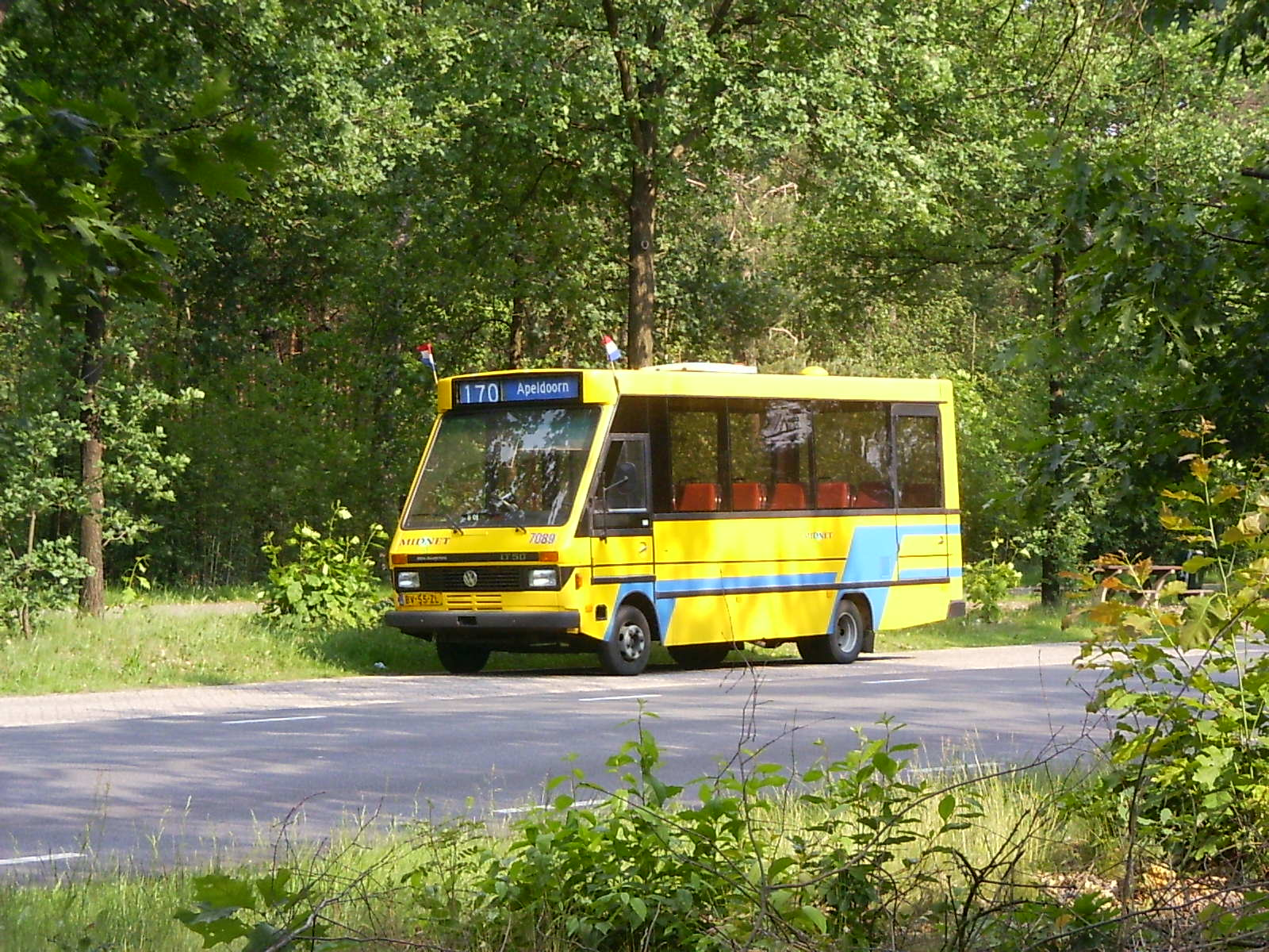 VW LT50 chassis bus.